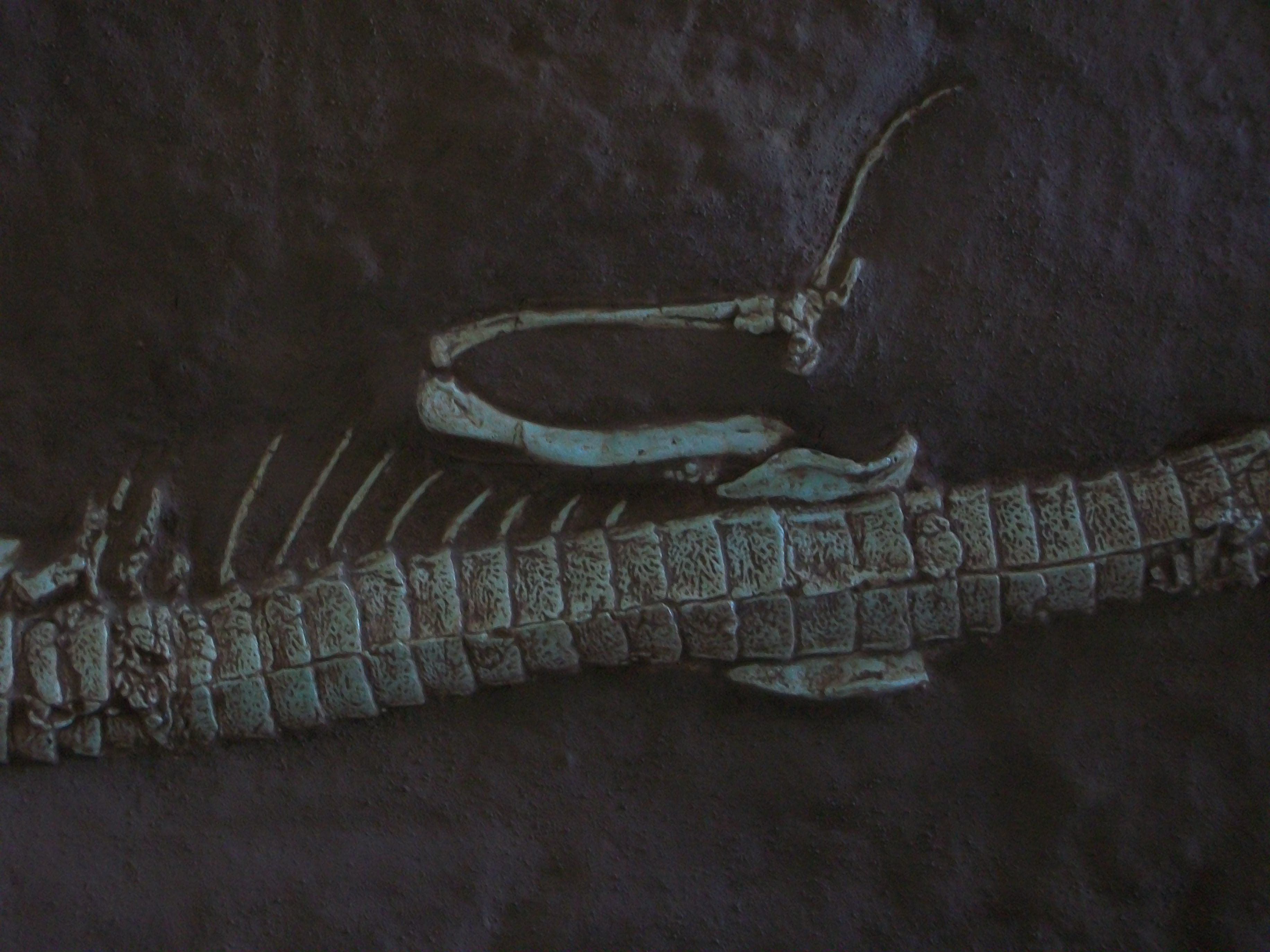 The pelvis, hindlimbs, and osteoderms of Protosuchus richardsoni, part of a fossil cast (specimen AMNH 3024) in the American Museum of Natural History.